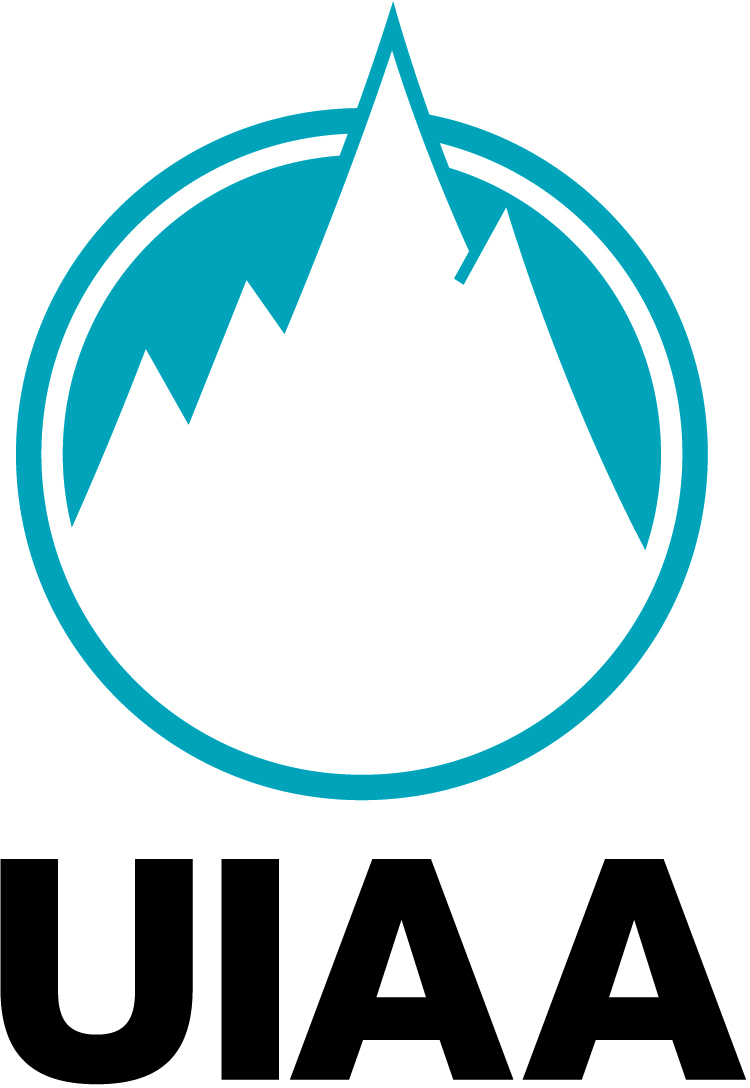 Logo of UIAA.